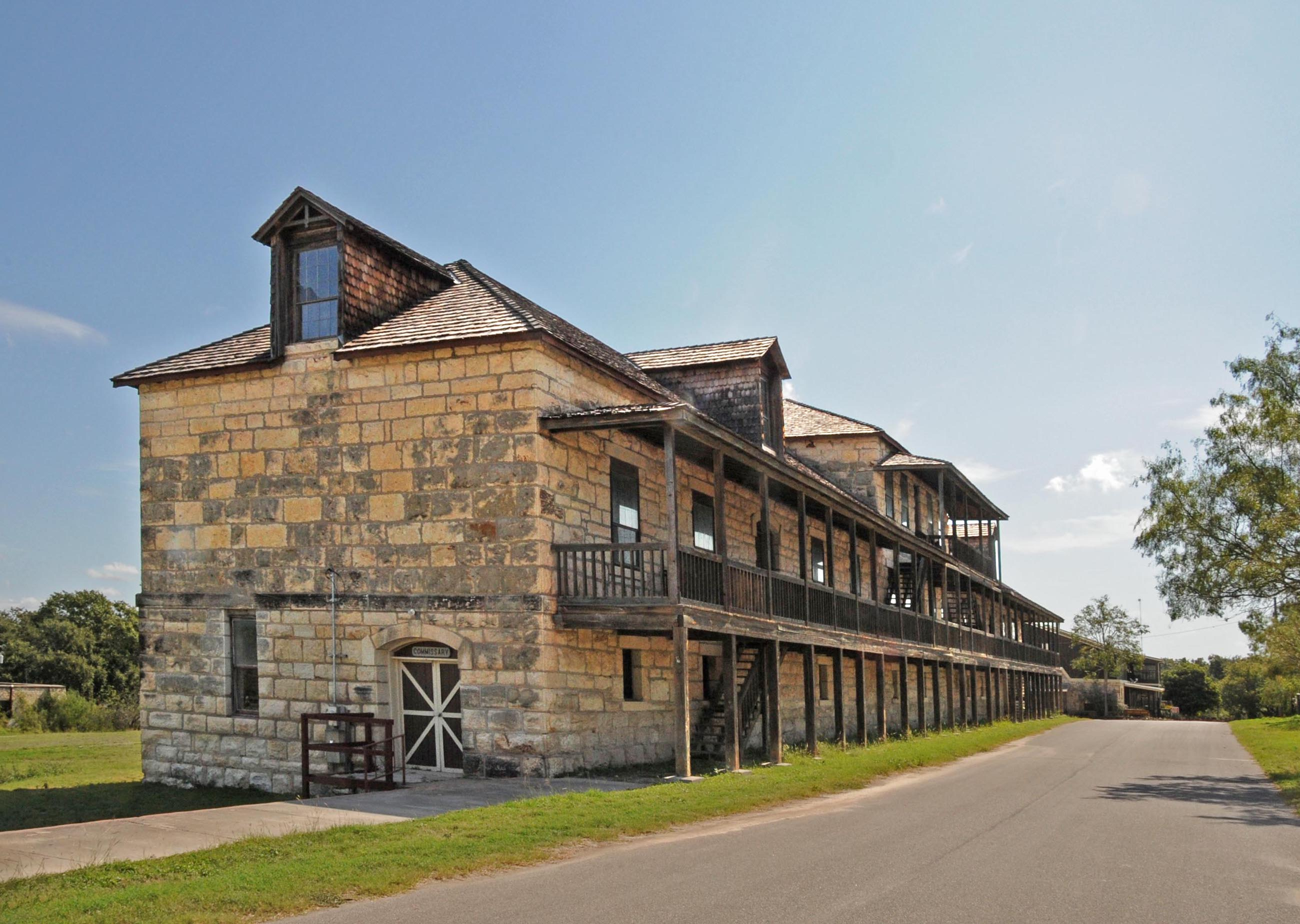 FORT WAS ESTABLISHED IN 1852 TO PROTECT THE FRONTIER AGAINST INDIANS ATTACKS AND INCURSIONS FROM MEXICO. MANY WELL KNOW GENERALS OF THE CIVIL WAR AND LATER HAVE SERVED HERE. IT WAS PRIMARILY A CAVALRY FORT. TODAY THE BUILDINGS ARE ALL INTACT AND IT IS A GATED COMMUNITY WITH QUARTERS NOW USED AS PRIVATE RESIDENCES, HOTEL, RESTAURANT, GOLF COURSE AND OTHER RECREATIONAL ACTIVITIES. THE PICTURE SHOWN IS THAT OF THE COMMISSARY